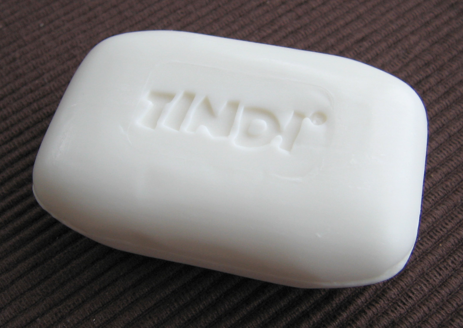 Baby soap "Tindi" by "Ringuva" (Panevėžys, Lithuania)